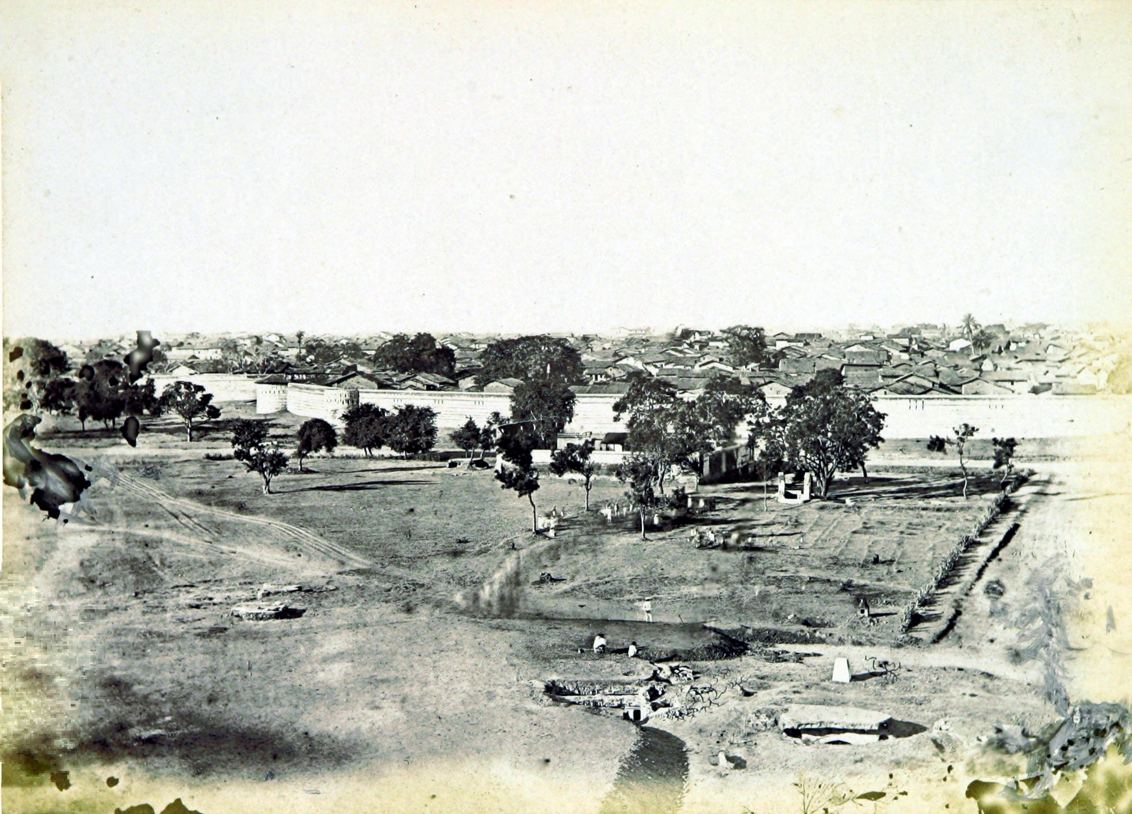 Image taken from: Title: "Architecture at Ahmedabad, the Capital of Goozerat, photographed by Colonel Biggs, ... With an historical and descriptive sketch, by T. C. H., ... and architectural notes by J. Fergusson, etc" Author: HOPE, Theodore Cracraft - Sir, K.C.S.I Contributor: BIGGS, Thomas. Contributor: FERGUSSON, James - Architect Shelfmark: "British Library HMNTS 10057.f.17.", "British Library OC V 6665" Page: 303 Place of Publishing: London Date of Publishing: 1866 Issuance: monographic Identifier: 001730119 Note: The colours, contrast and appearance of these illustrations are unlikely to be true to life. They are derived from scanned images that have been enhanced for machine interpretation and have been altered from their originals. If you wish to purchase a high quality copy of the page that this image is drawn from, please order it here. Please note that you will need to enter details from the above list - such as the shelfmark, the page, the book's volume and so on - when filling out your order. Following this or the link above will take you to the British Library's integrated catalogue. You will be able to download a PDF of the book this image is taken from, as well as view the pages up close with the 'itemViewer'. Click on the 'related items' to search for the electronic version of this work. Click here to see all the illustrations in this book and click here to browse other illustrations published in books in the same year. Please click on the tags shown on the right-hand side for other ways to browse the illustrations.